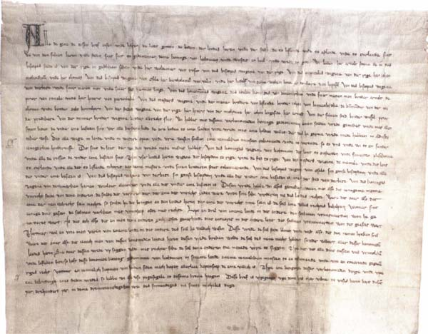 Peace agreement between Gediminas and Order, Danish vicegerent of Reval lands, bishops and Ryga